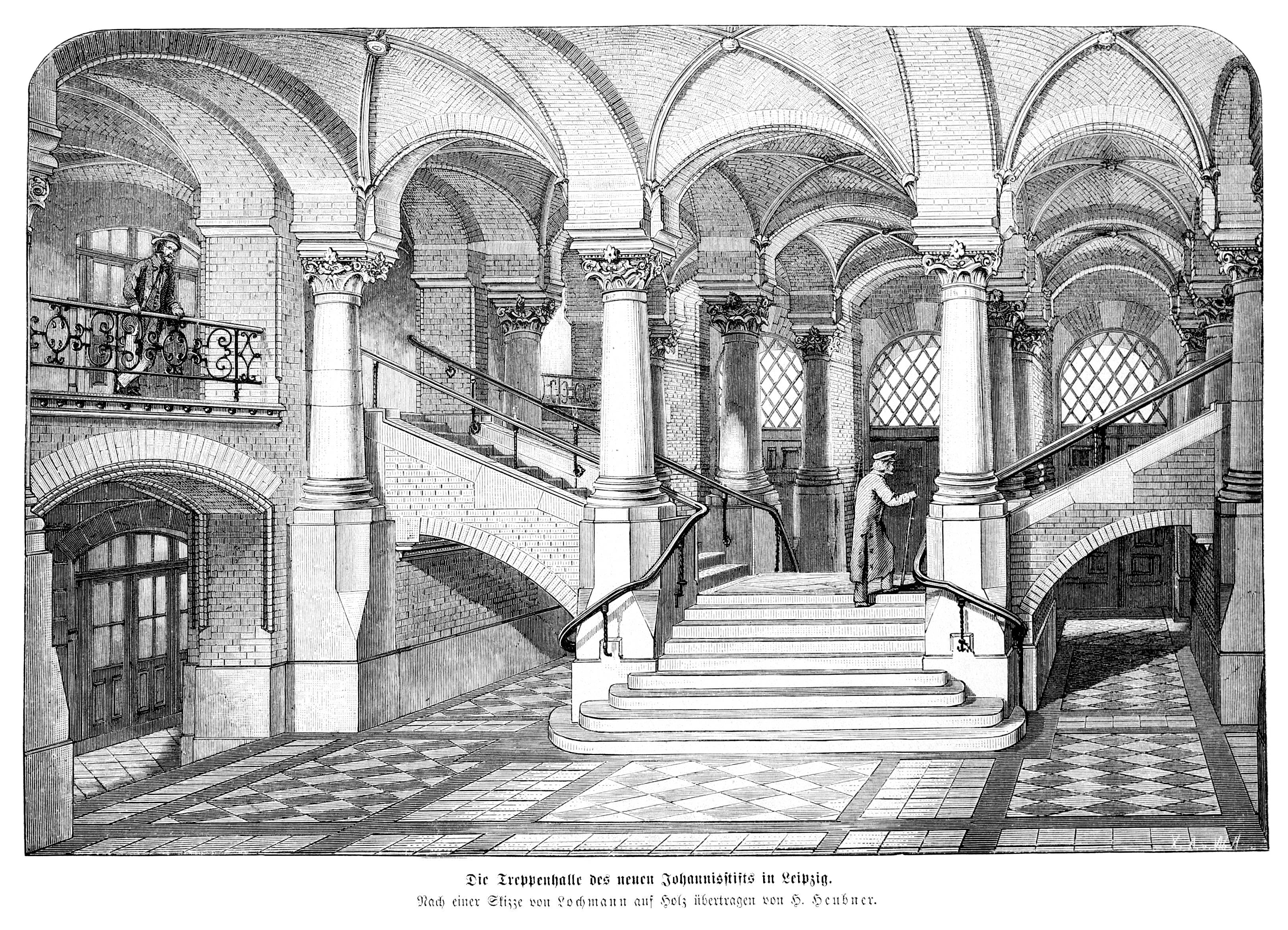 caption: "Die Treppenhalle des neuen Johannisstifts in Leipzig. Nach einer Skizze von LachmannTemplate:CRef auf Holz übertragen von H. Heubner."